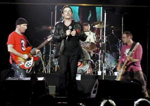 U2 performs at Waldbuehne in Berlin, Germany on the Elevation Tour on July 29, 2001